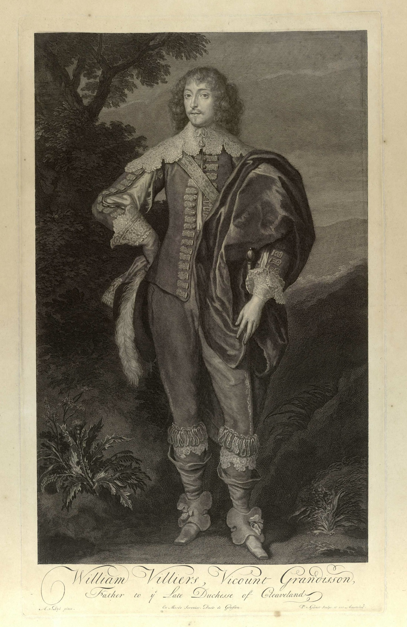 Engraving of William Villiers, 2nd Viscount Grandison, as painted c. 1640